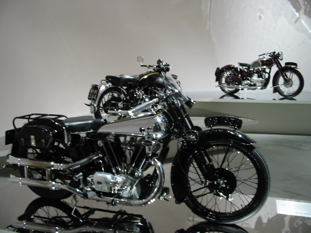 British motorcycles at "Art of the Motorcycle", Guggenheim Las Vegas, 2001–2003. In the foreground is a Brough-Superior V-twin. Behind it are (centre) a Vincent-HRD and (right) a Triumph parallel twin.